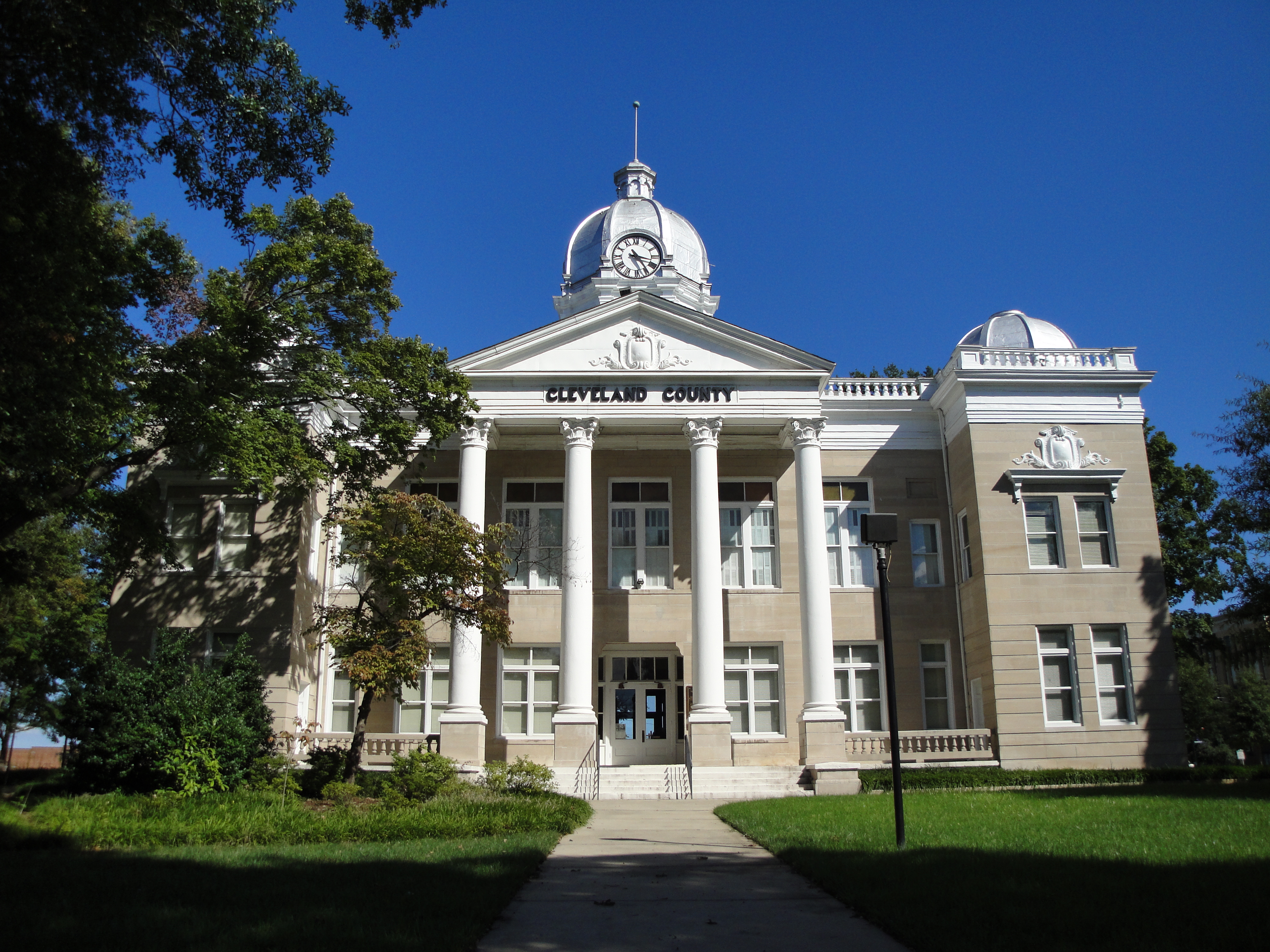 The west side of the old Cleveland County Courthouse in Shelby, North Carolina.